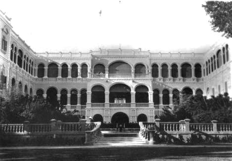 Government House, Khartoum, Sudan (1941)